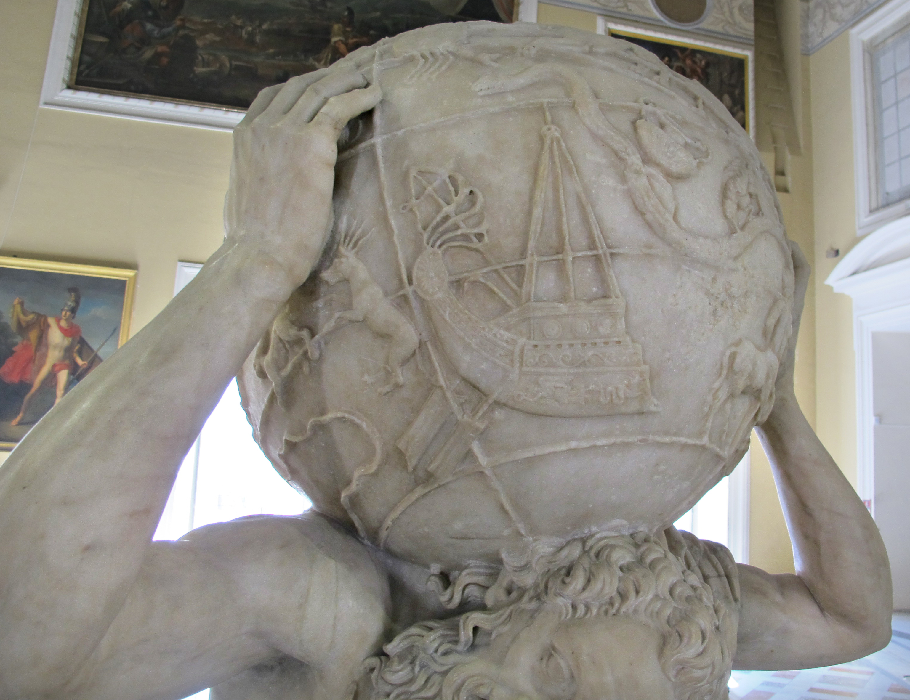 Ancient Roman statues in the Museo Archeologico (Naples)